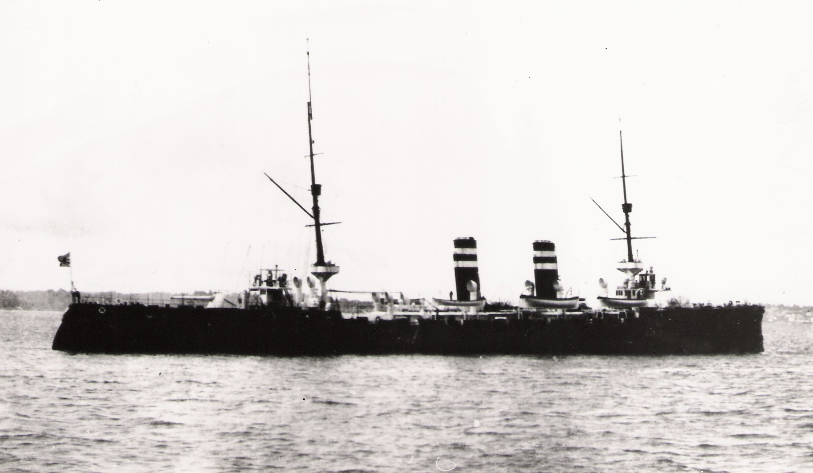 The Japanese protected cruiser Takasago at Portsmouth. Glass plate photograph from the archives of Albert Reuben Martin, Turbine foreman at Yarrows Shipbuilders at Portsmouth, and probably taken by him.